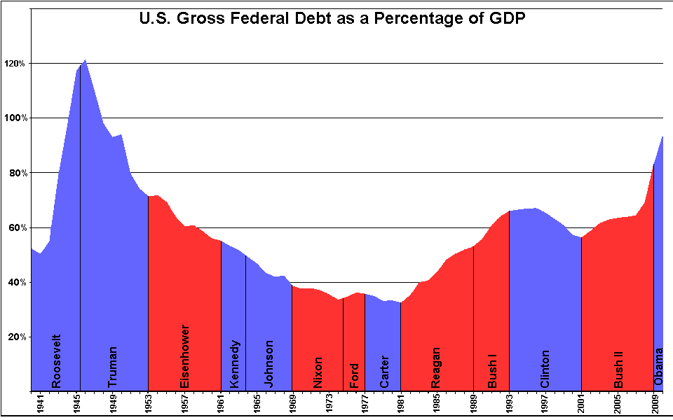 Graph of U.S. gross federal government debt from 1940 to 2010, as a percentage of GDP, broken down by presidential terms.